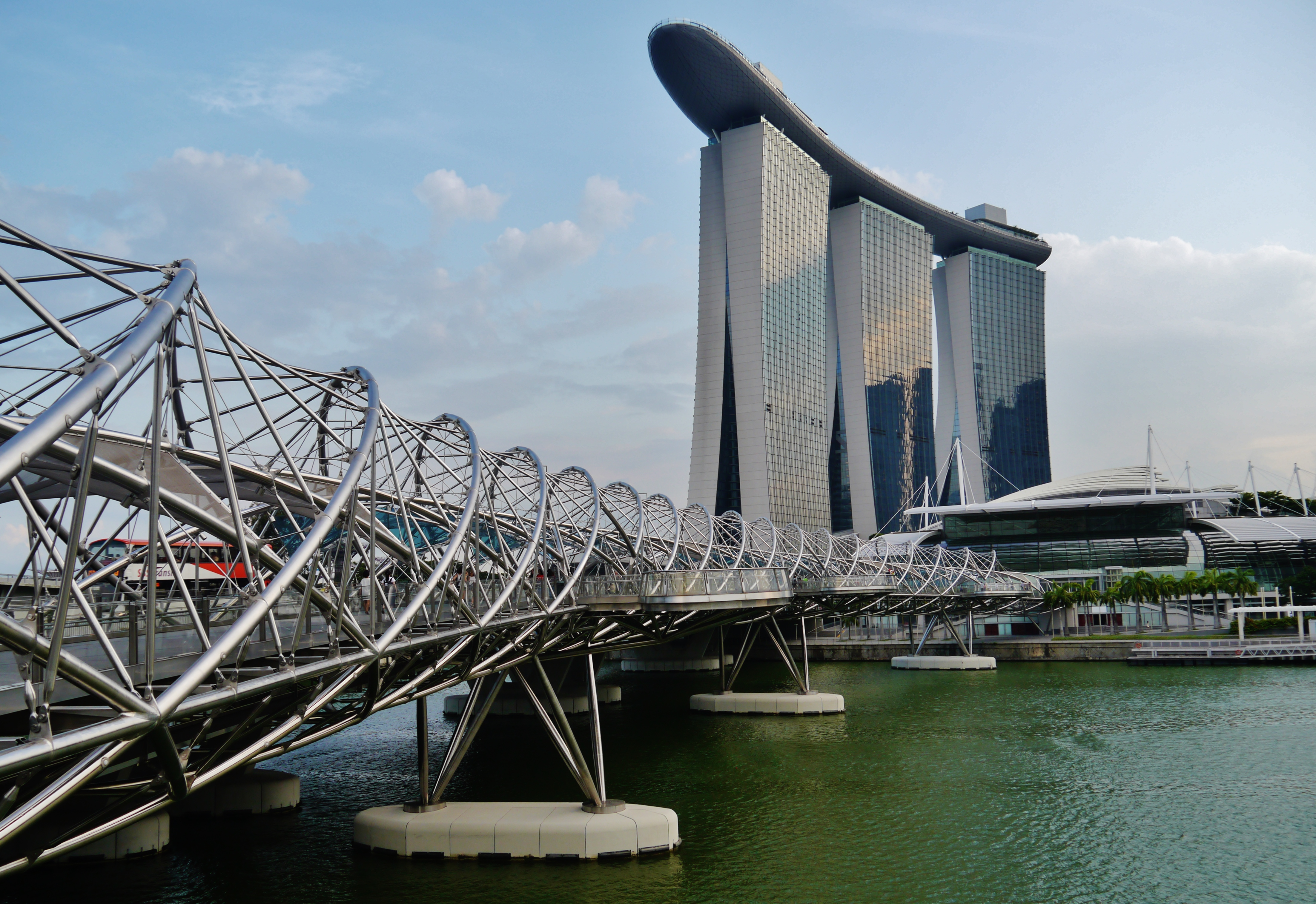 Helix Bridge & Marina Bay Sands, Singapore